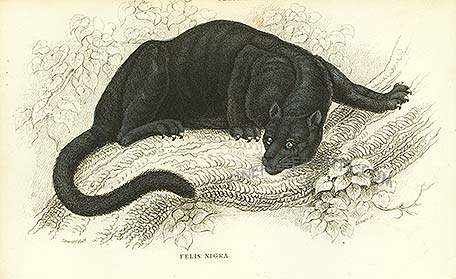 antique print of The Black Puma from Big Cats by Lizars.